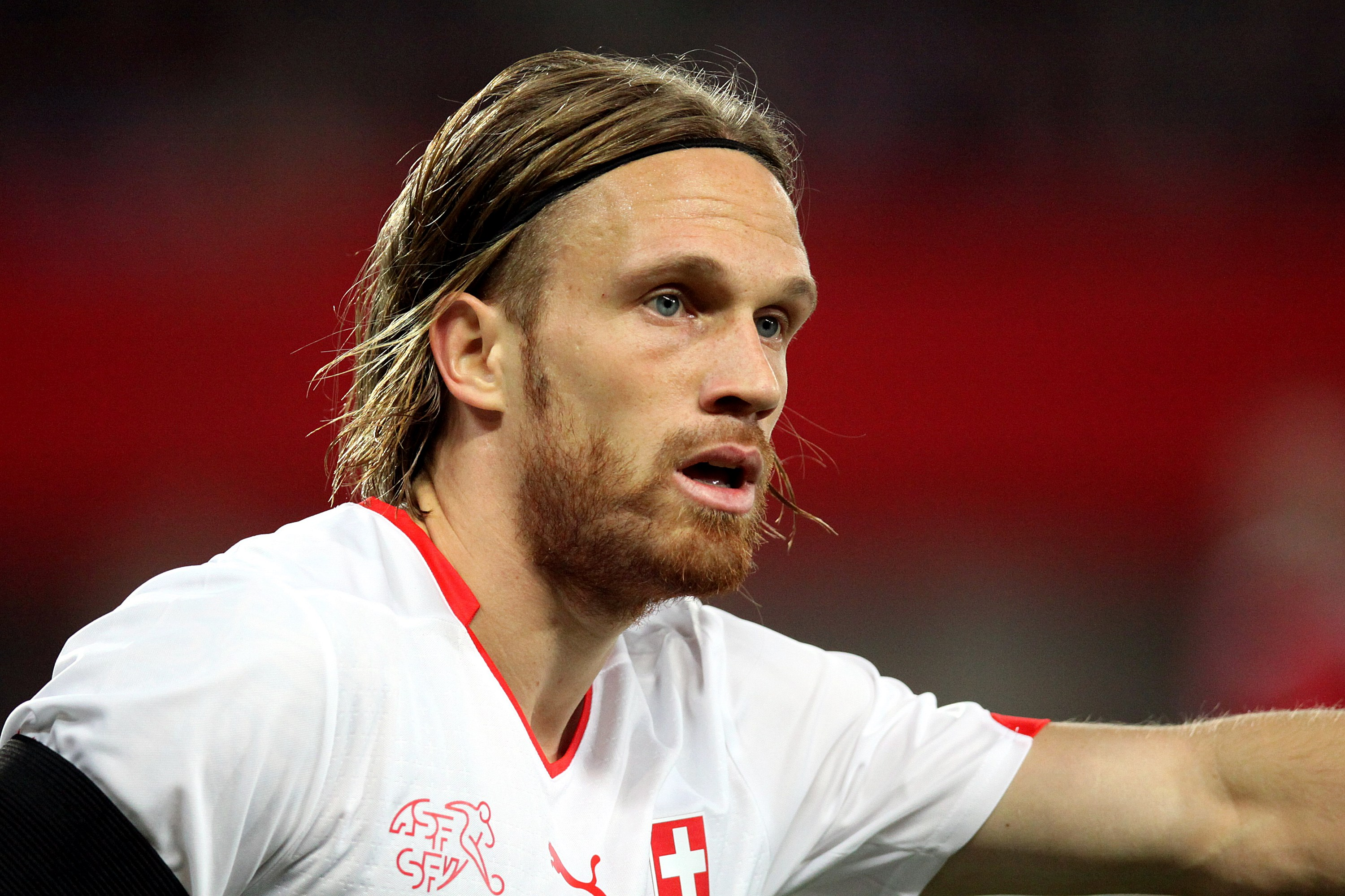 Friendly match – Austria (red shirts) vs. Switzerland (white shirts) 1-2 (1-2) – 2015-11-17 in Vienna, Ernst-Happel-Stadion – The photo shows Michael Lang.